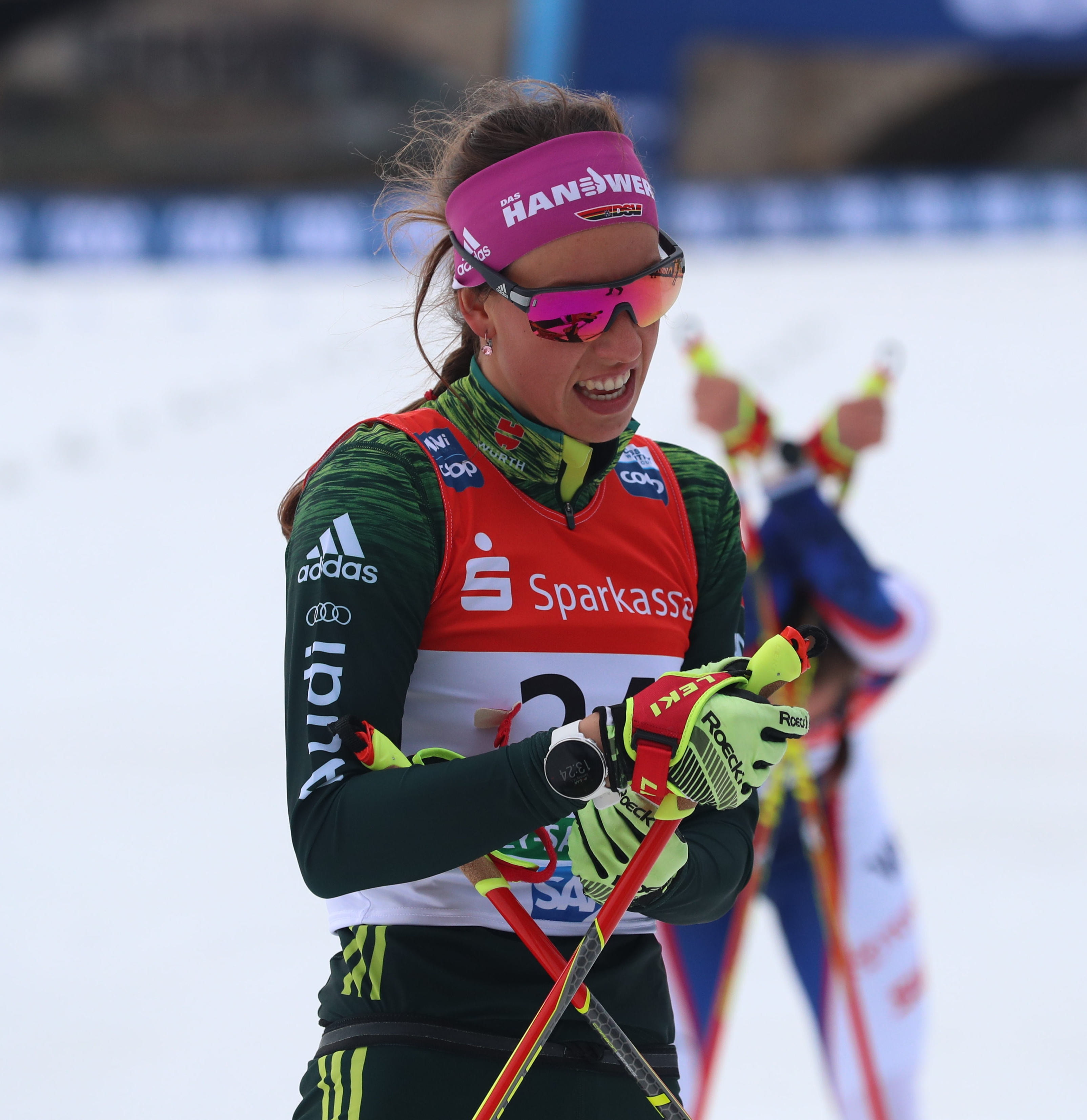 Women's Quarterfinal, Heat 1, at the FIS Cross-Country World Cup Dresden 2019 (1.6 km Free Sprint)